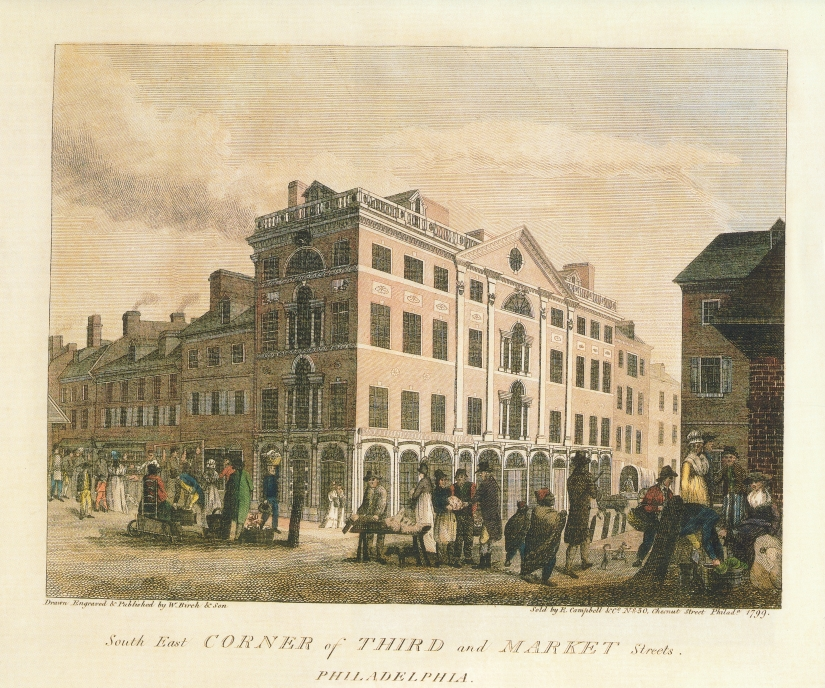 "South East Corner of Third and Market Streets, Philadelphia." Plate 8 from The City of Philadelphia as it appeared in the Year 1800. Published by W. Birch, Springland Cot. near Neshaminy Bridge on the Bristol Road; Pennsylvania. Decr. 31st 1800.